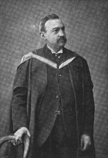 Picture of Howard Grubb, the telescope maker